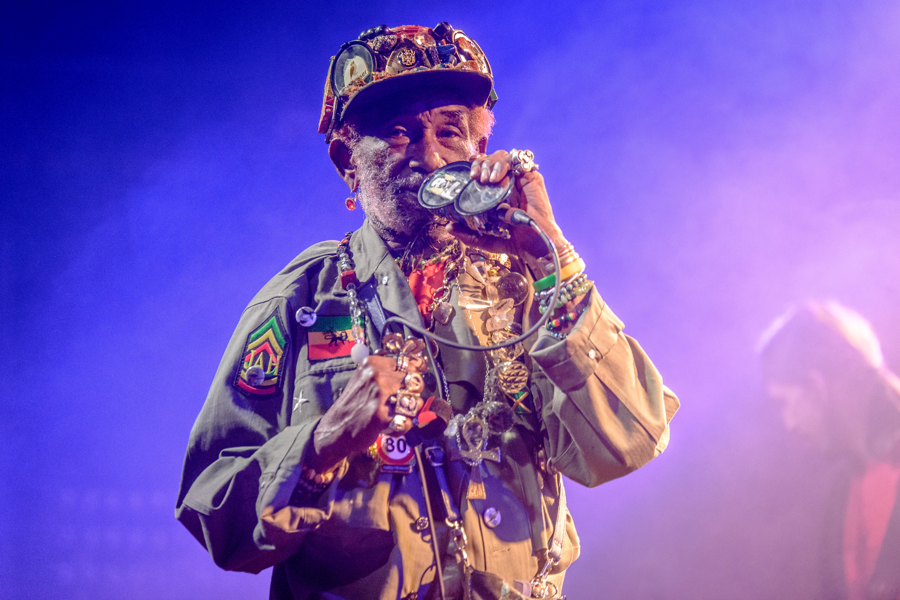 Lee Scratch Perry Live @ Munich 2016